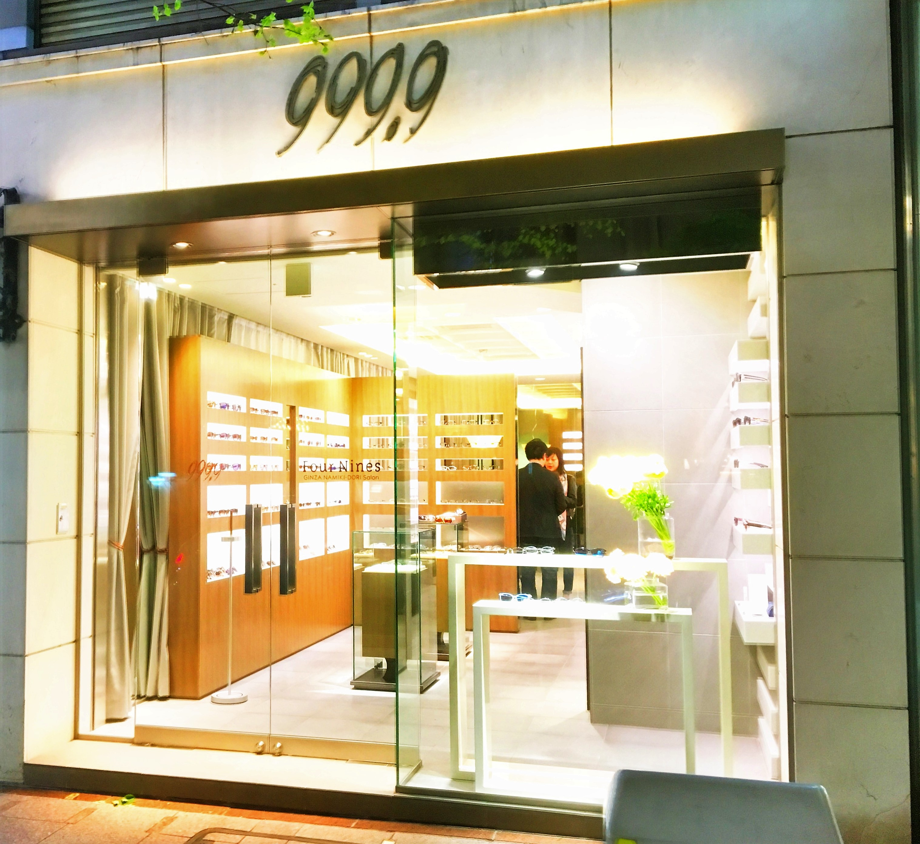 fournines-ginzashop-7